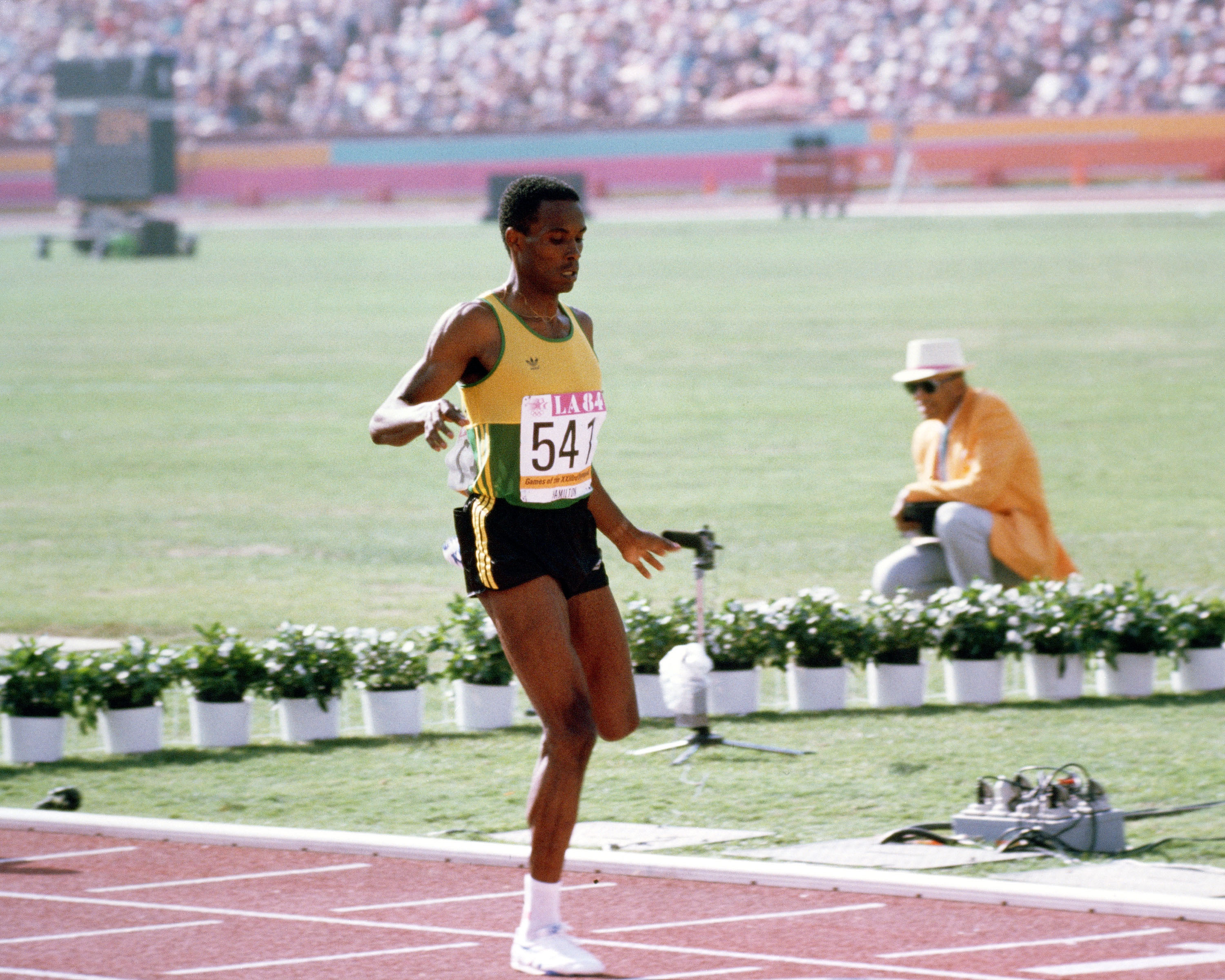 Airman 1st Class Owen Hamilton is a representative of the Jamaican track ands field team competing at the 1984 Summer Olympics.